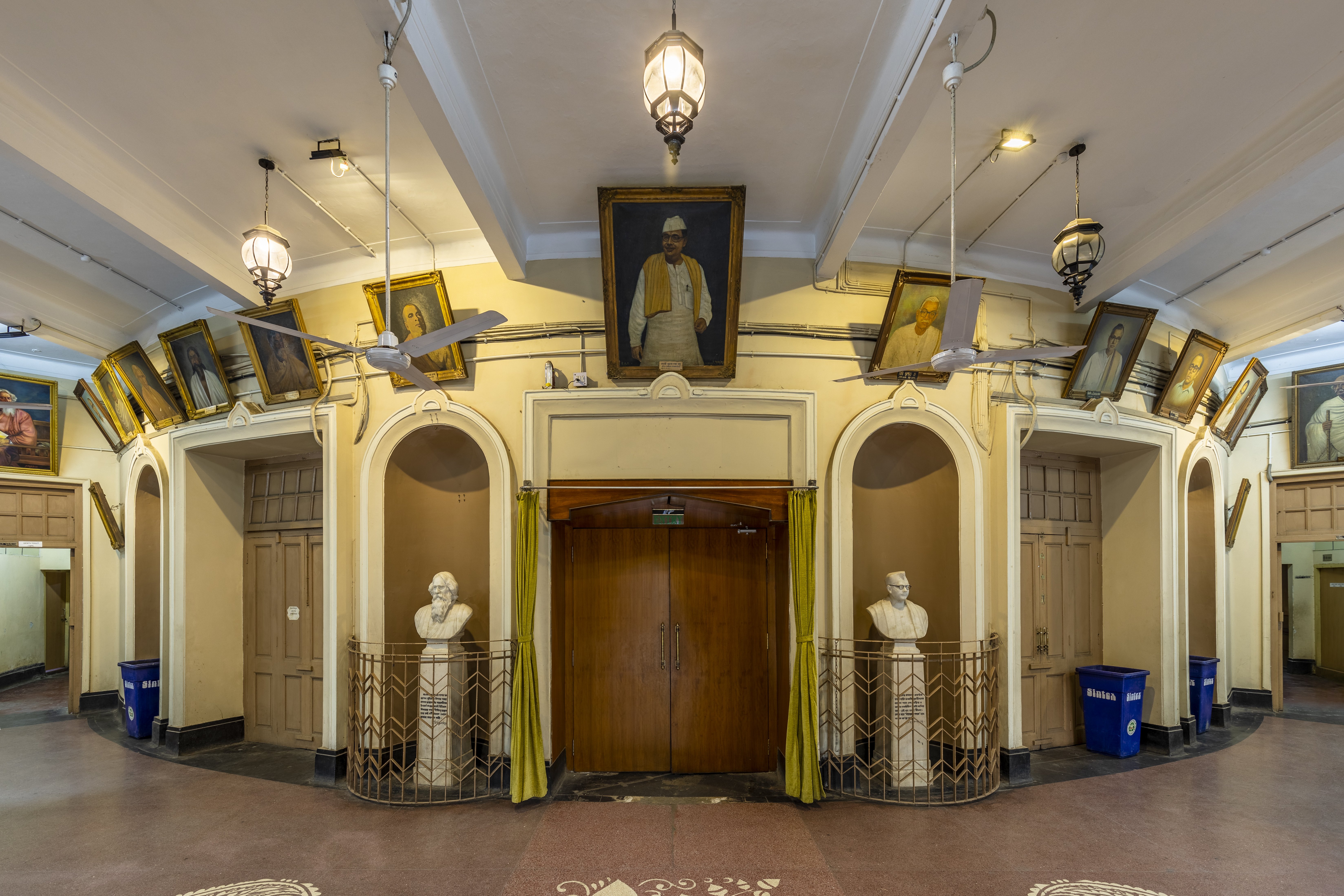 Entrance to the Mahajati Sadan auditorium in Kolkata. Busts of Subhas Chandra Bose and Rabindranath Tagore flank the door. Hanging from the walls are paintings of Indian freedom fighters.